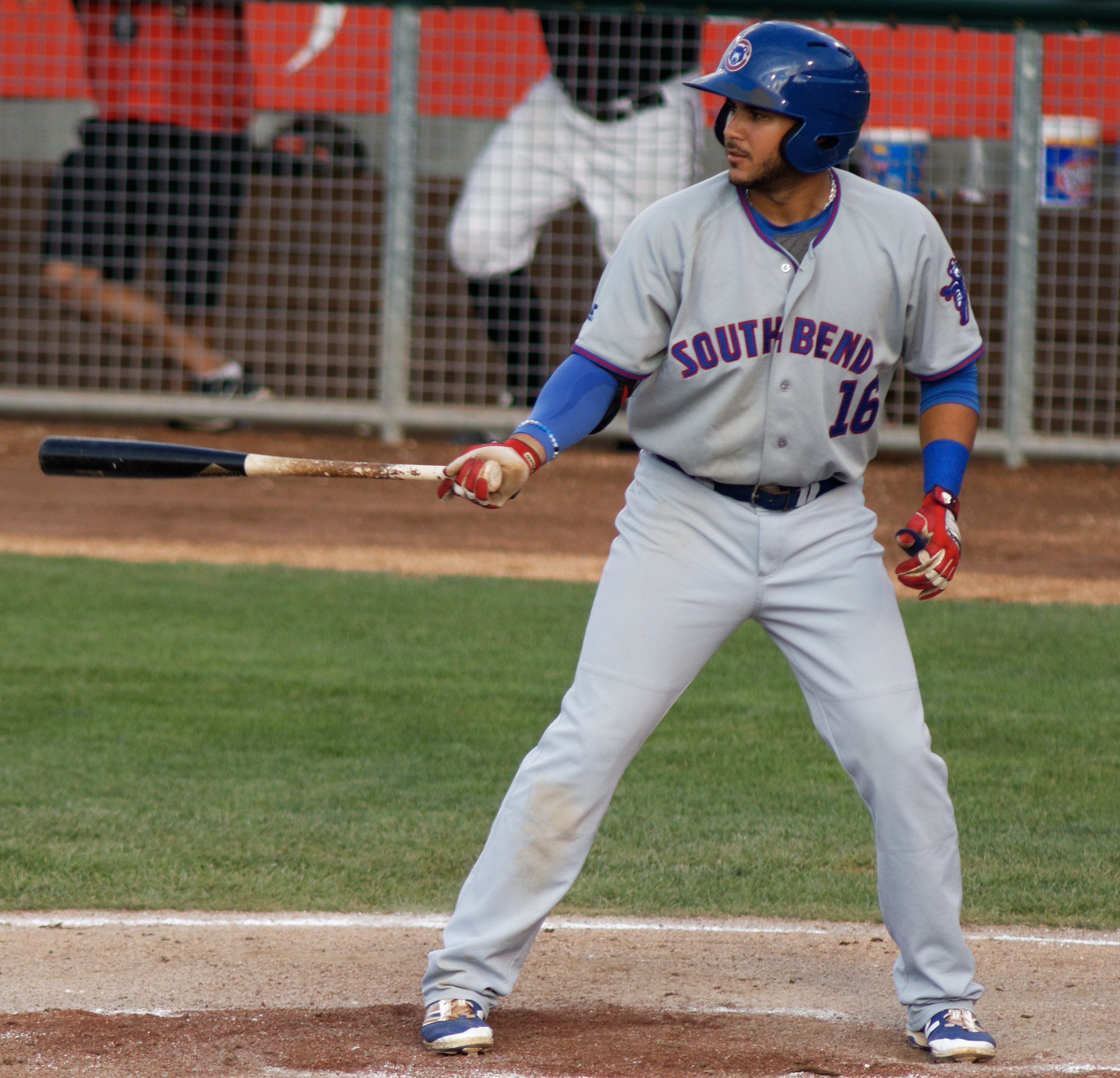 Vimael Machin bats for the South Bend Cubs during a 2016 game at Cooley Law School Stadium in Lansing, Michigan.